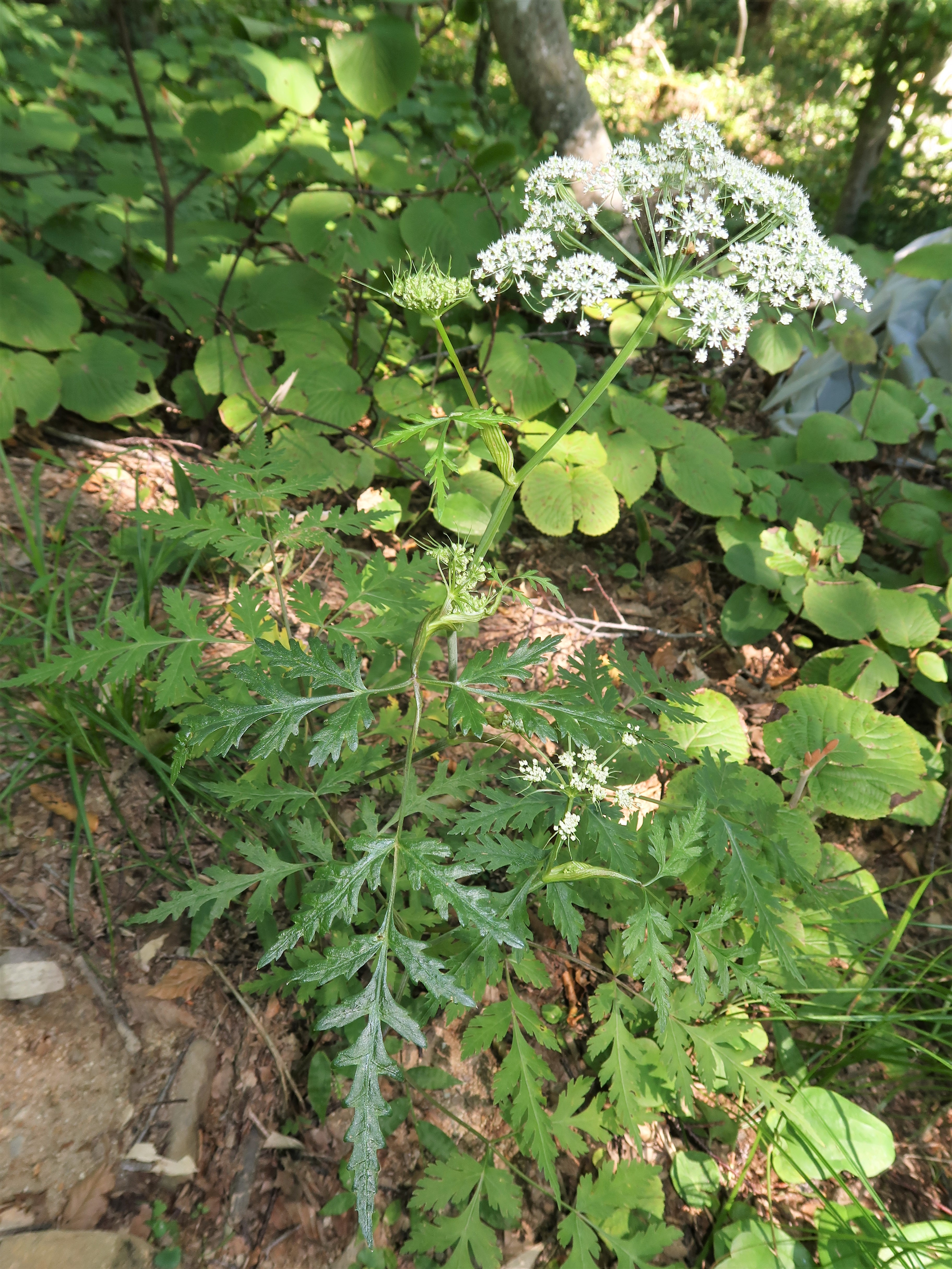 Peucedanum terebinthaceum, Oga Peninsula, Akita pref., Japan